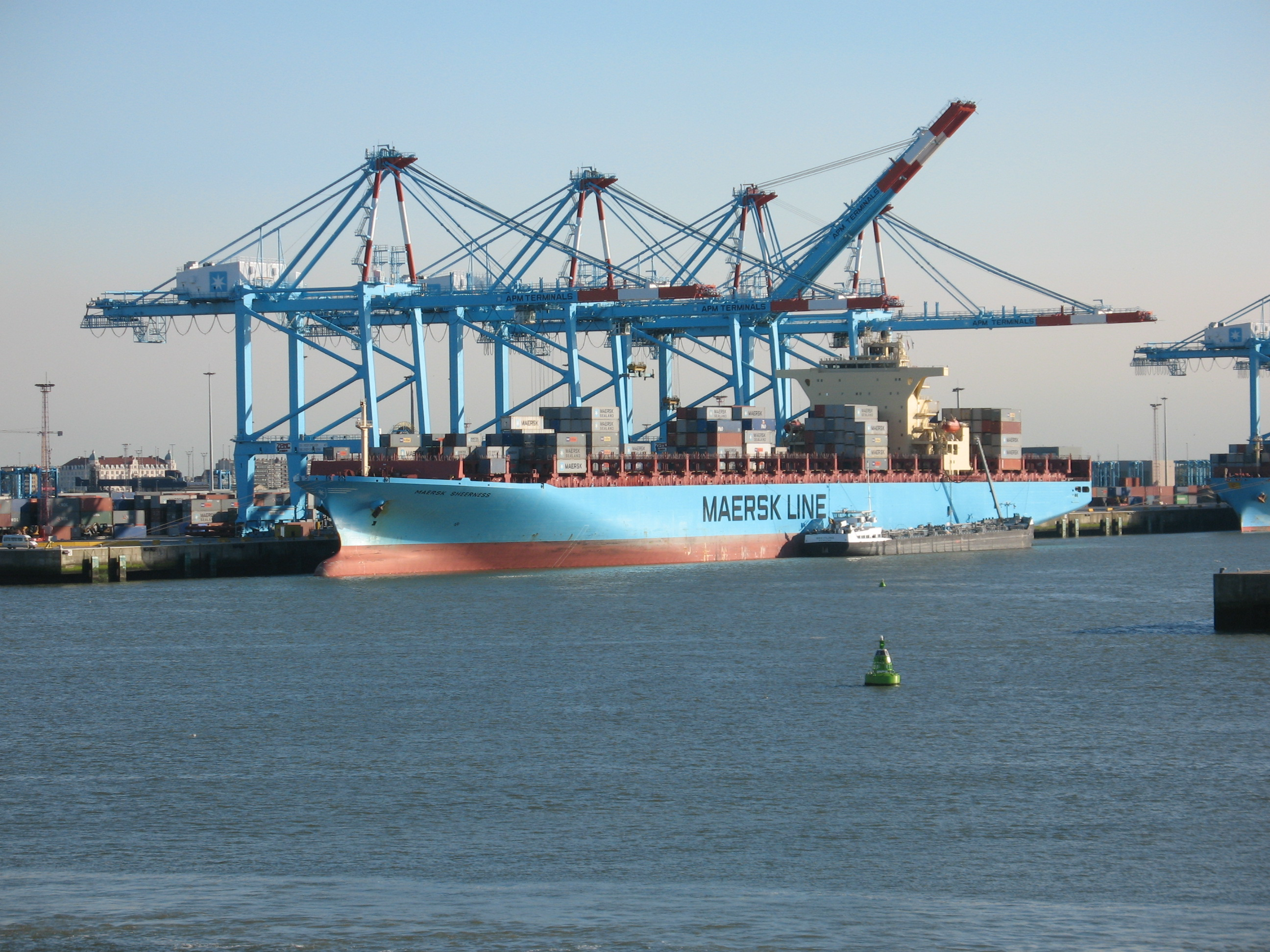 Portcranes in the port of Zeebrügge, Belgium. Ships name: Maersk Sheerness IMO Number: 9299939 MMSI Number: 218310000 Callsign: DDJQ2 Length: 334 m Beam: 42 m